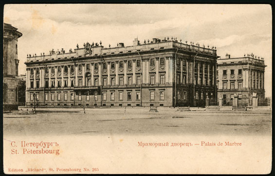 Saint Petersburg (Russia), Marble Palace.